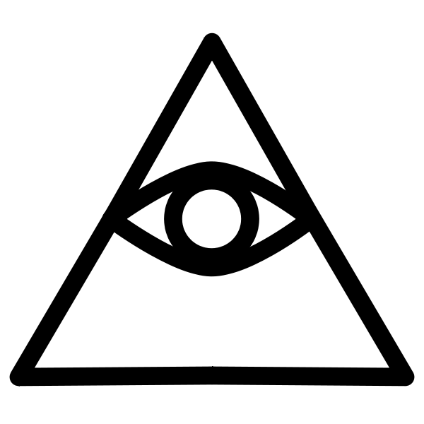 Eye of Providence - Cao Dai